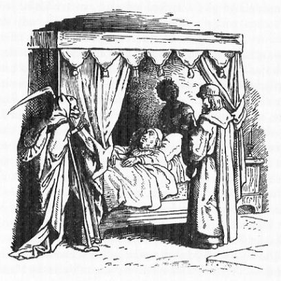 Image of scene from Grimm Brothers story Godfather Death.